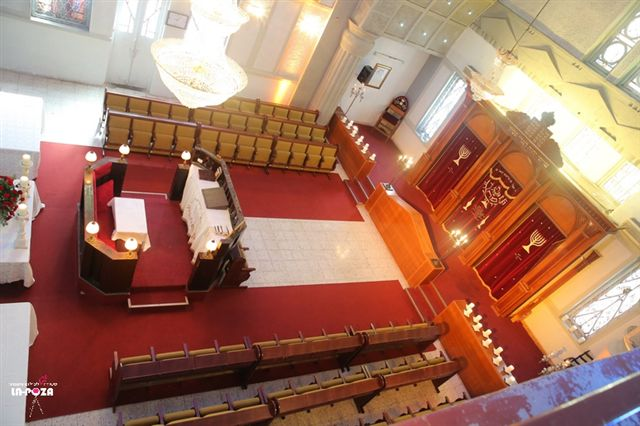 The great sephardic synagogue in Tel-Aviv